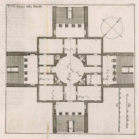 Villa Almerico Capra called "La Rotonda" by Andrea Palladio. Drawing by Ottavio Bertotti Scamozzi, 1778.